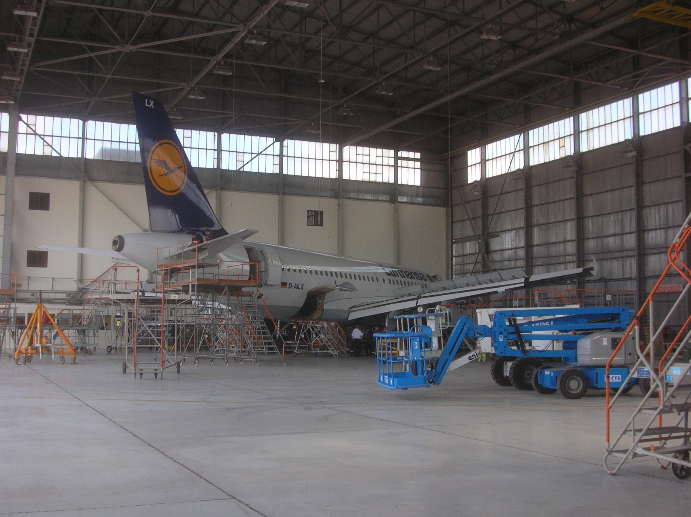 A lufthansa Airbus A-319 in a maitance hangar in Luqa, Malta. C Mercieca 18:49, 5 November 2006 (UTC)